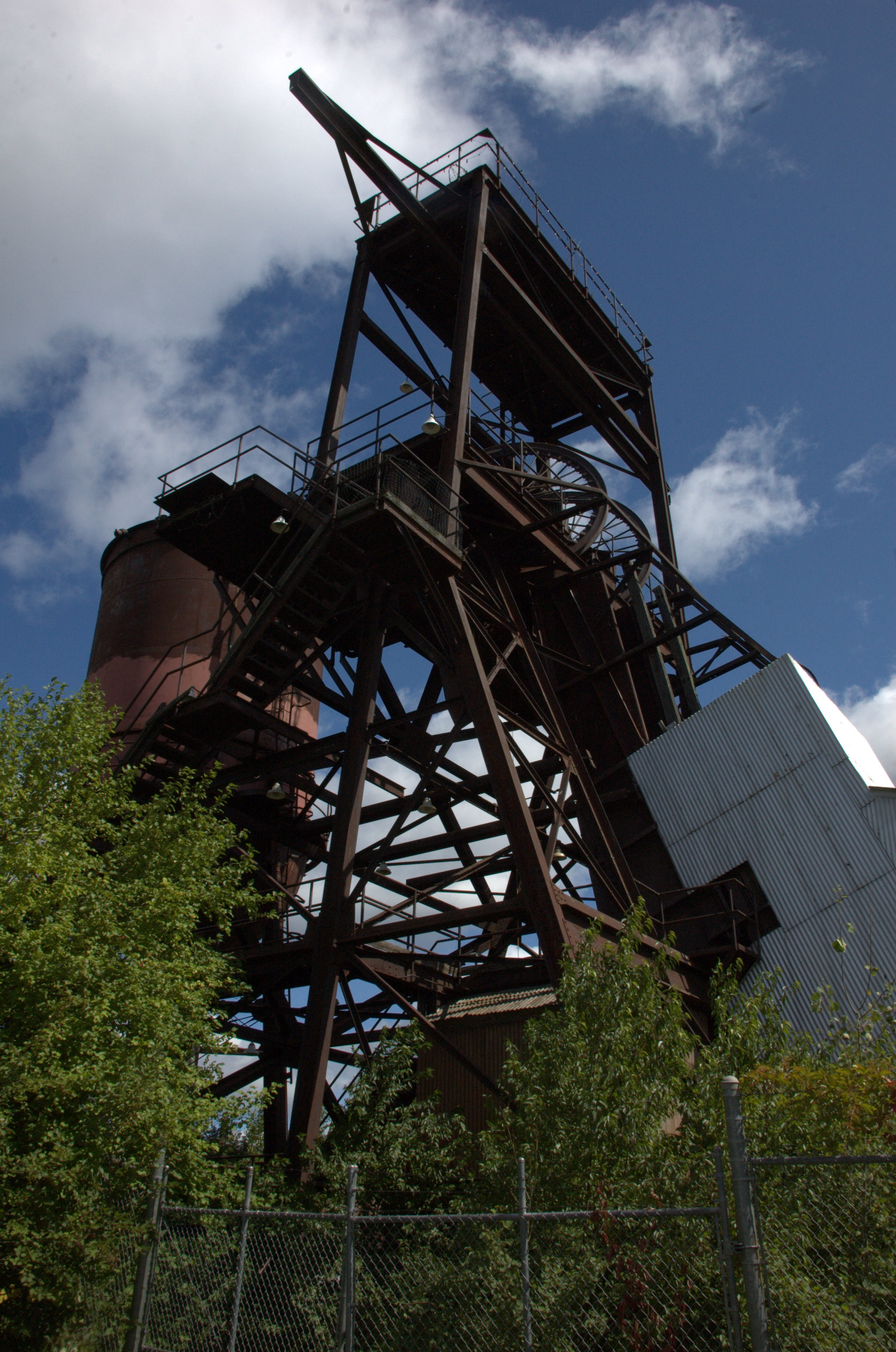 Northen MN